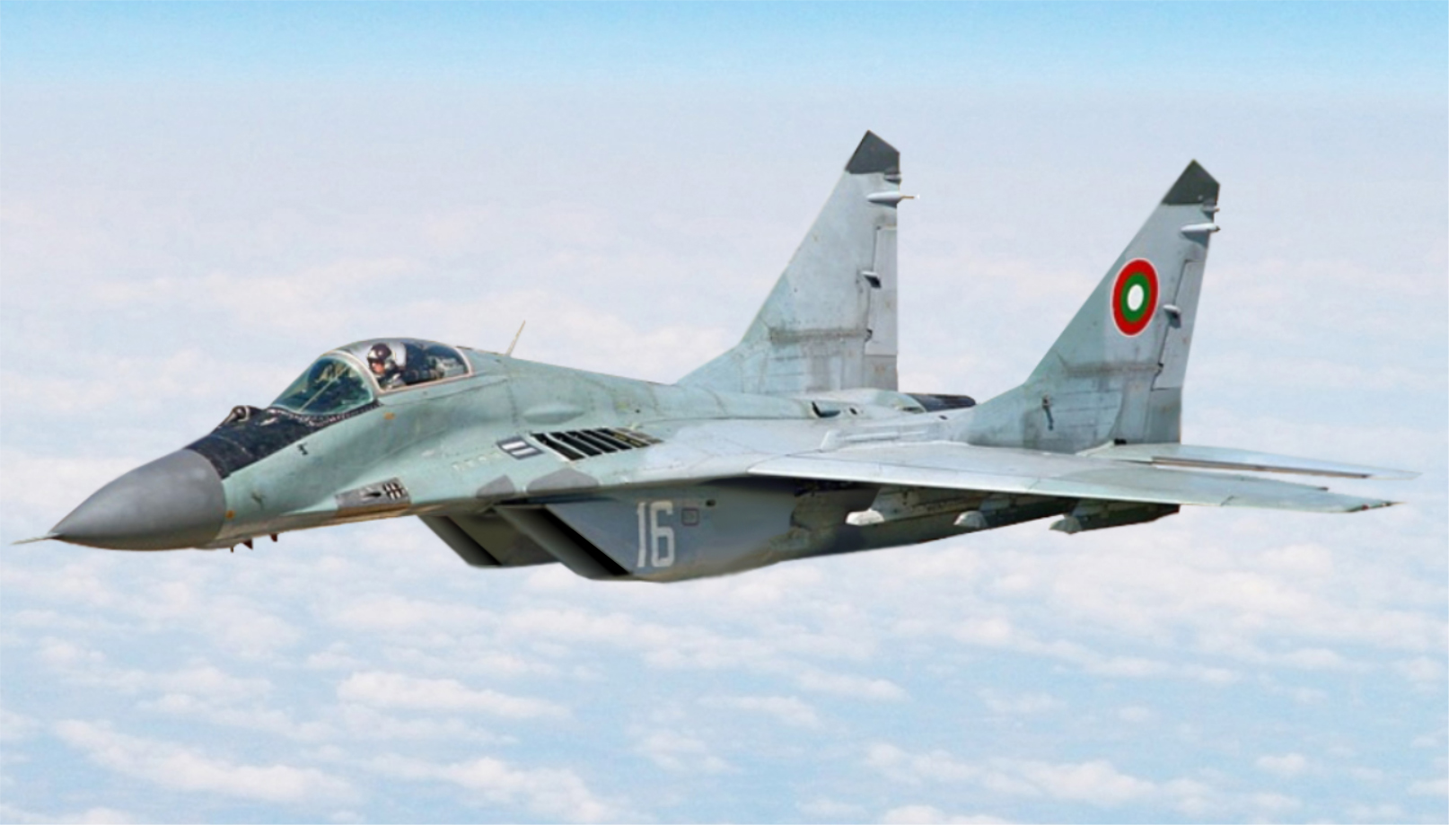 Bulgarian MiG-29A in flight